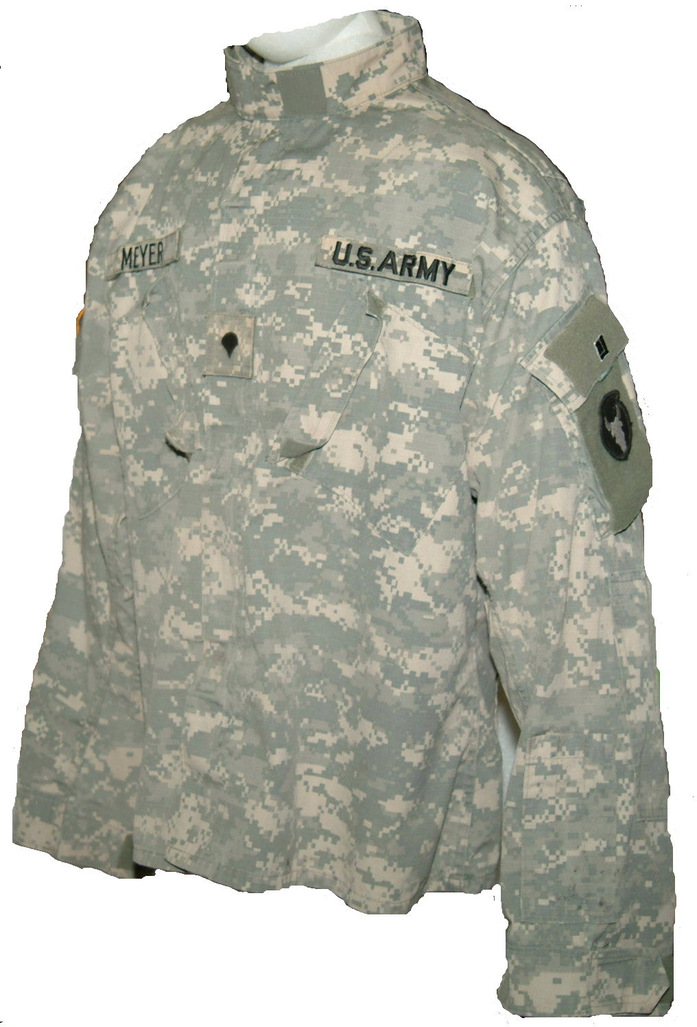 This coat was worn by Specialist Matthew J. Meyer, who is currently serving in Operation Iraqi Freedom IV.